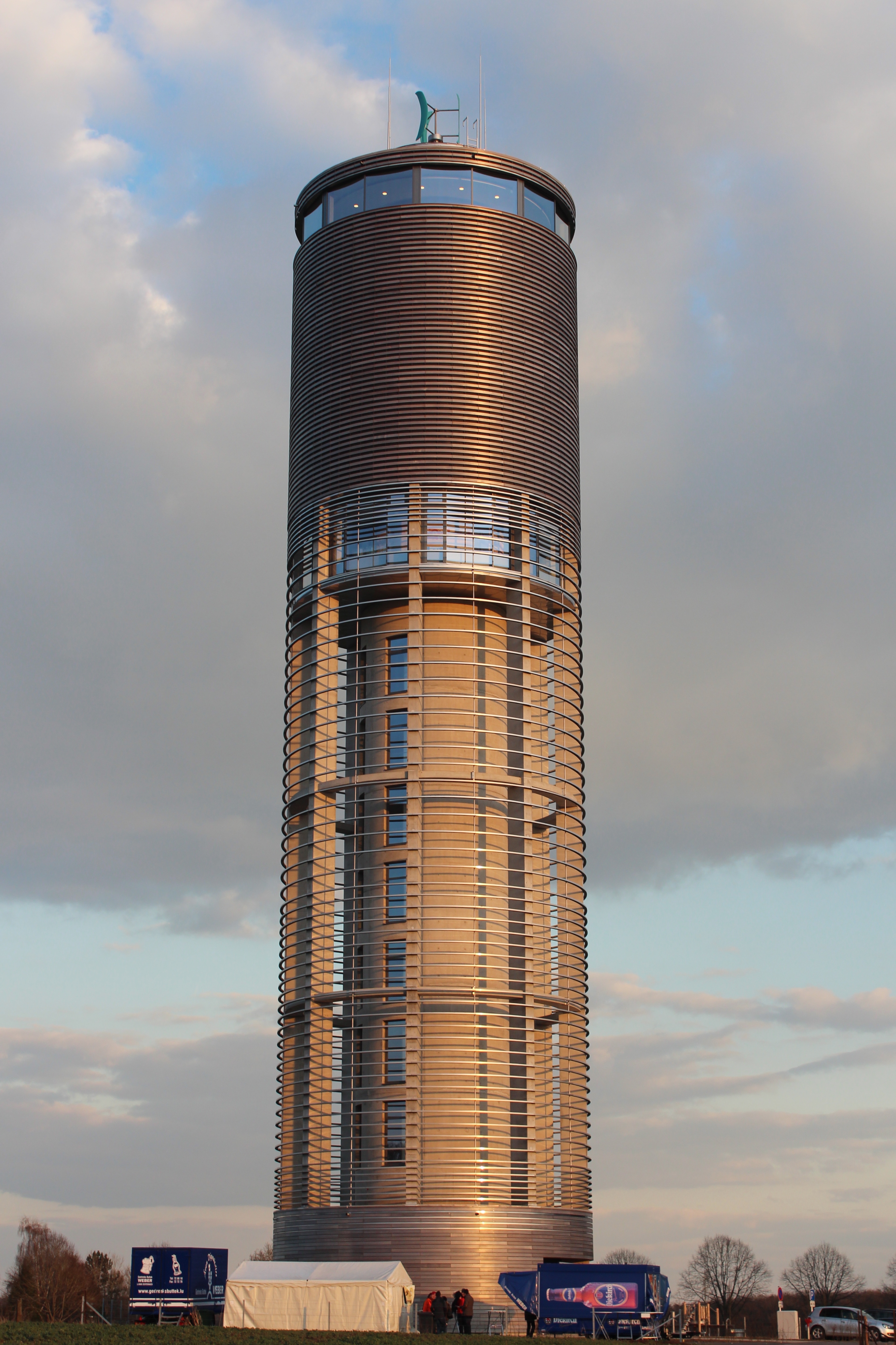 Aquatower, a water and observation tower in Berdorf, Luxembourg.